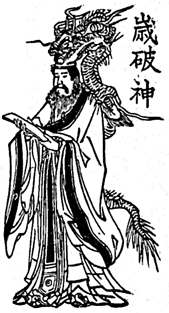 God of Saiha. 歳破神